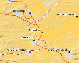 map - area of Münster (bei Dieburg), Hesse, Germany